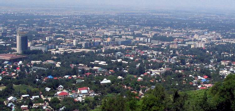 A view of downtown Almaty from Kok Tobe, with the Hotel Kazakhstan on the left.